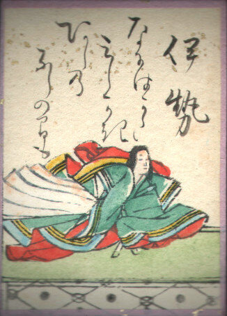 A portrait of Ise; illustration from an uta-garuta playing card for Hyakunin Isshu, created in the Edo period.